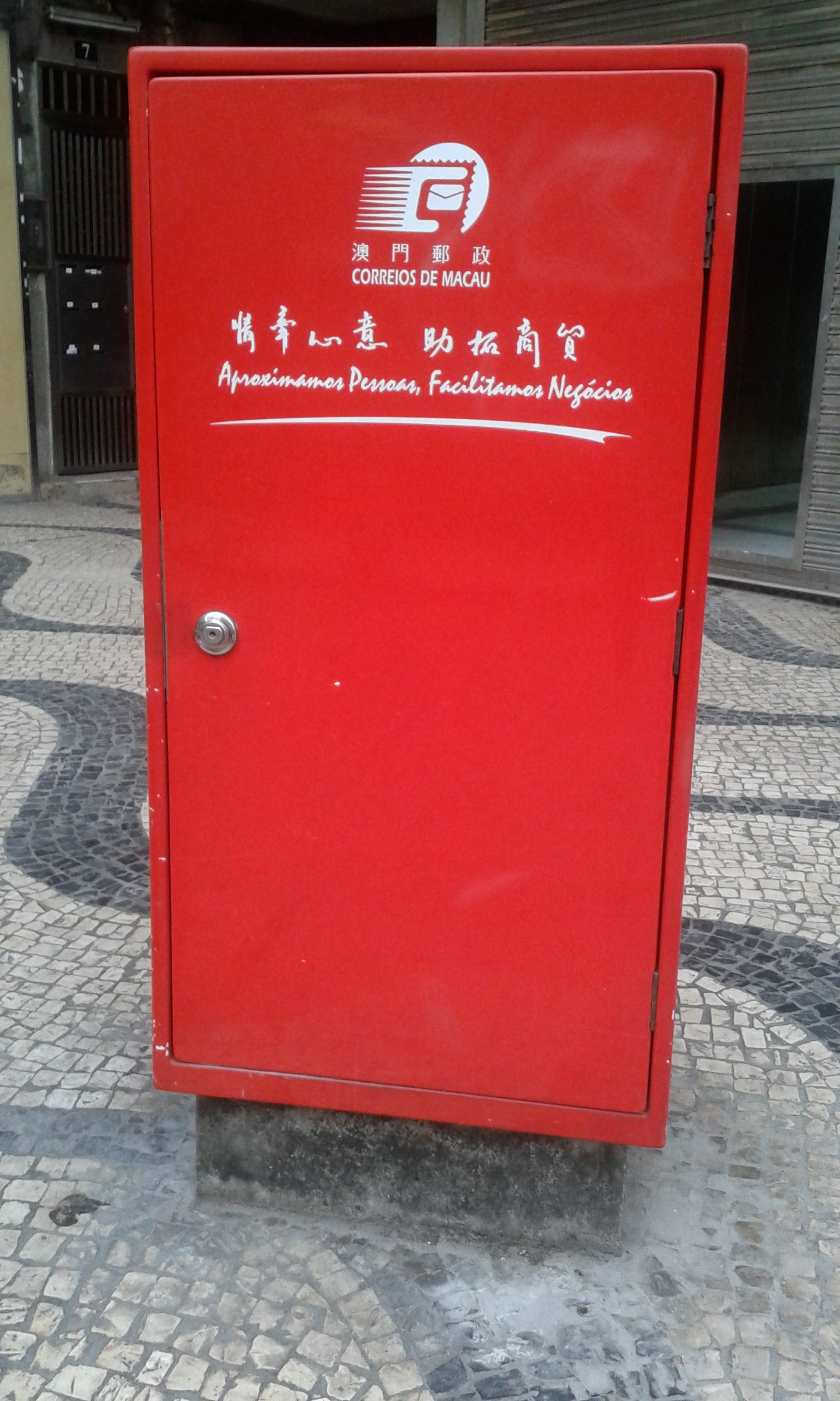 Macau PostBox